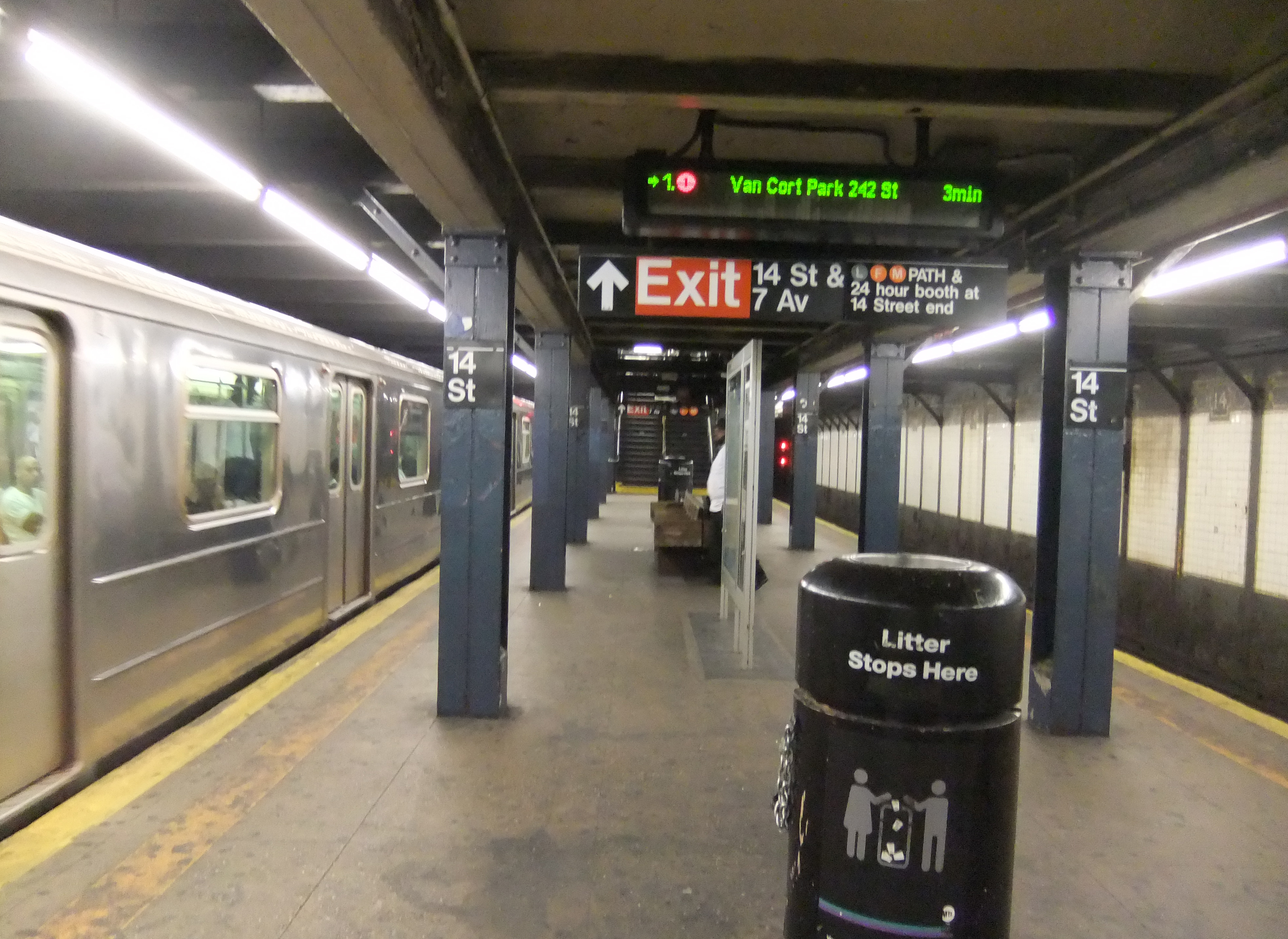 Uptown IRT platform at 14th Street-7th Avenue.